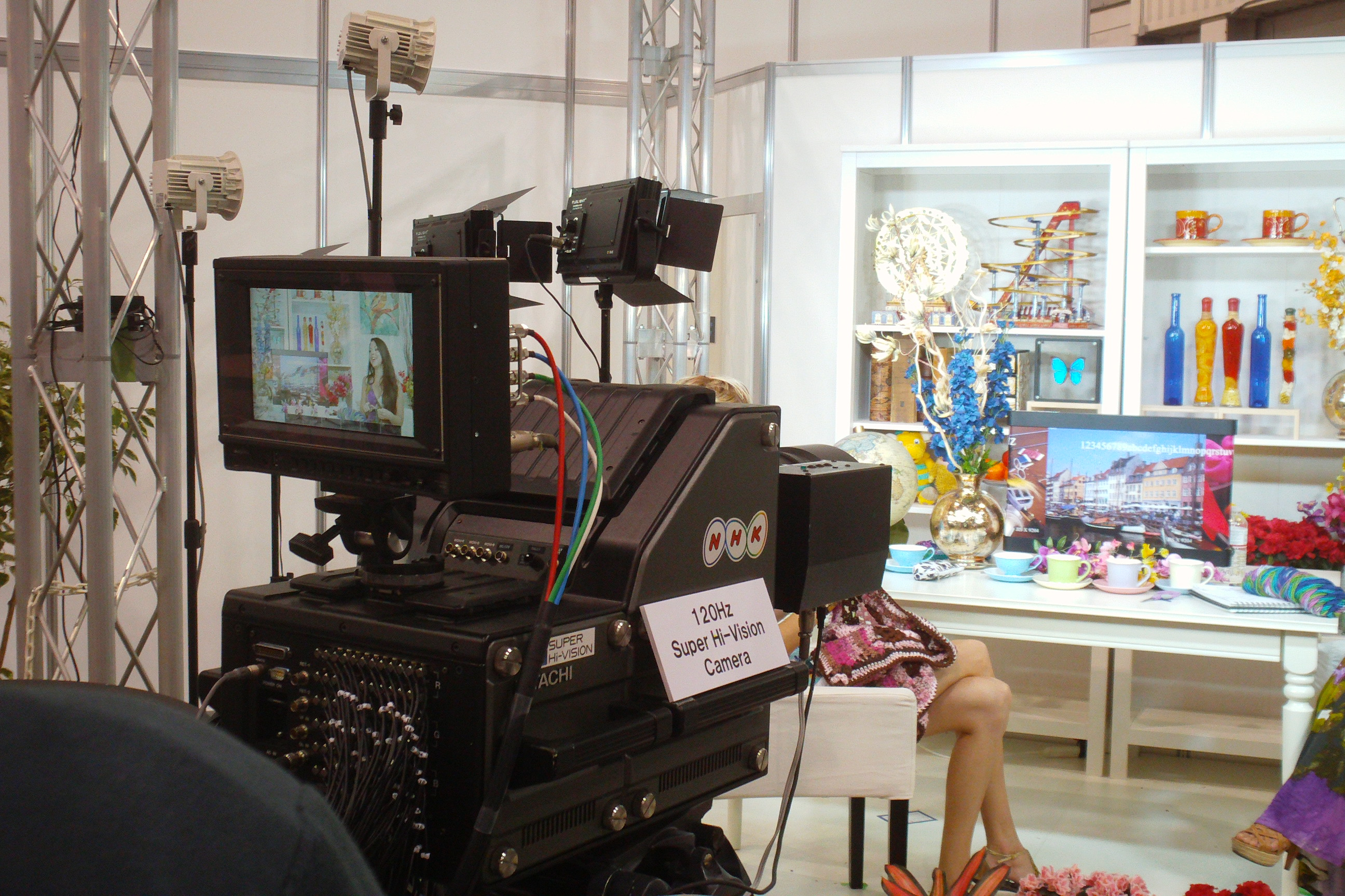 NHK / Hitachi demoing their 8K resolution camera at the 2013 NAB Show.